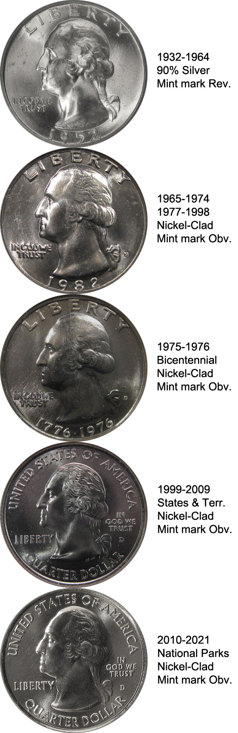 Progression of Washington Quarter Obverse Designs, 1932–present